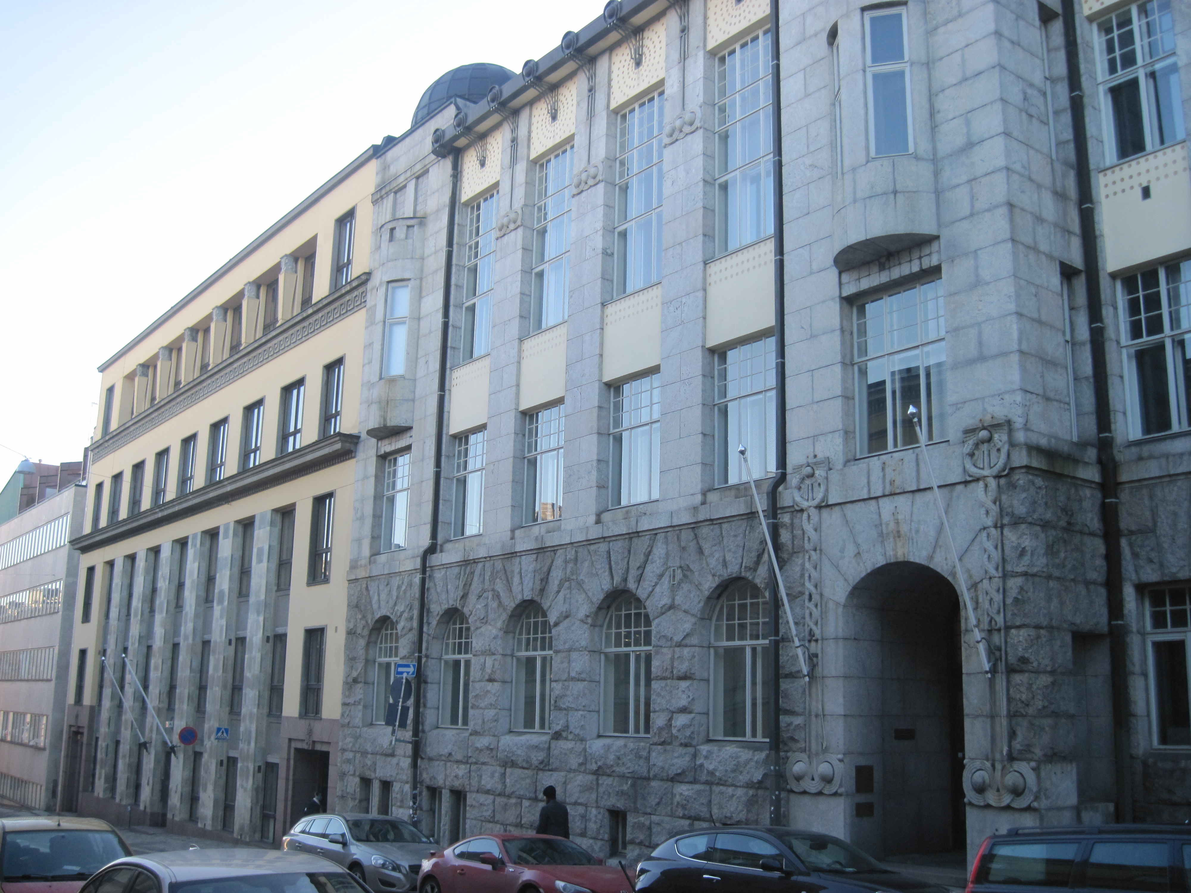 Former building of Helsinki Business College at Fabianinkatu 26, Helsinki